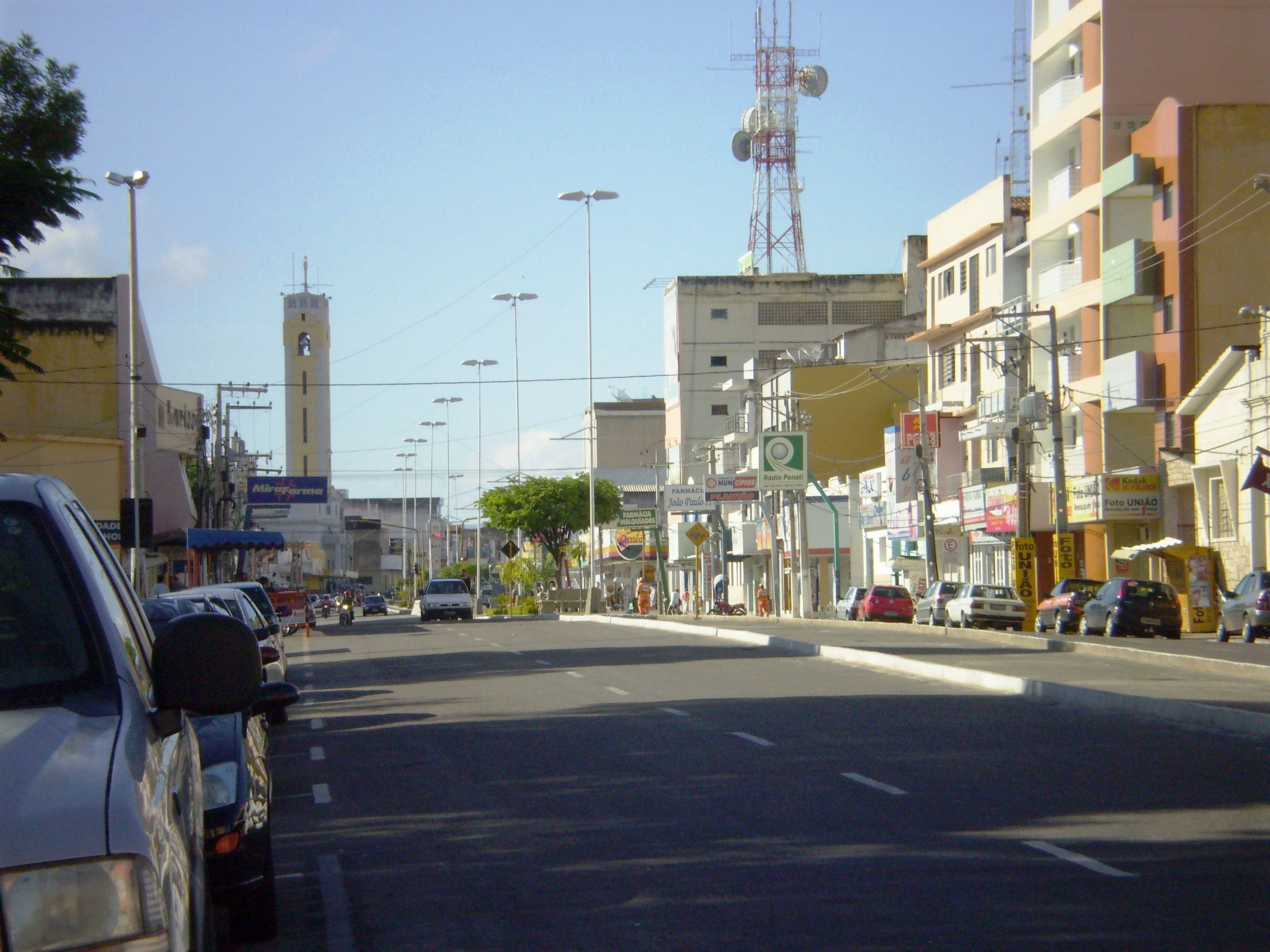 Avenue Epitácio Pessoa - Patos,PB,Brazil